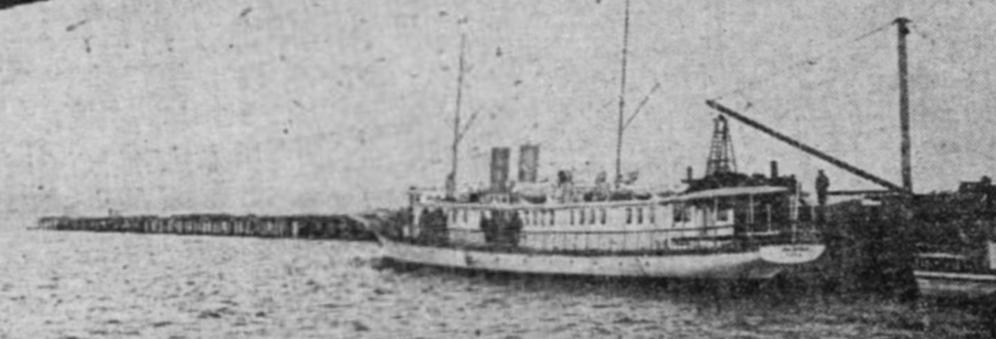 The motor yacht Bayocean at the Bay Ocean wharf on Tillamook Bay, June 1911.